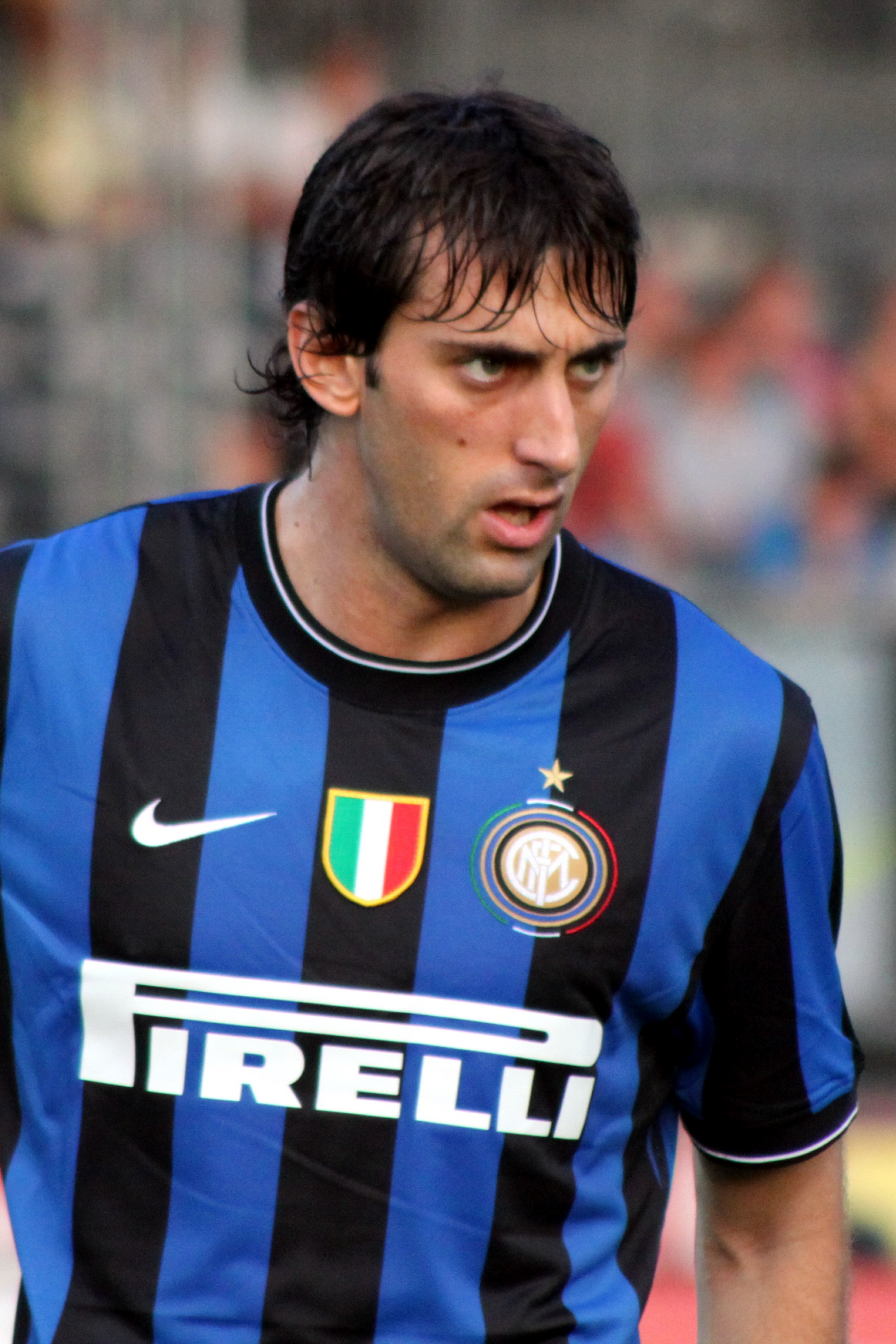 Diego Milito - F.C. Internazionale Milano